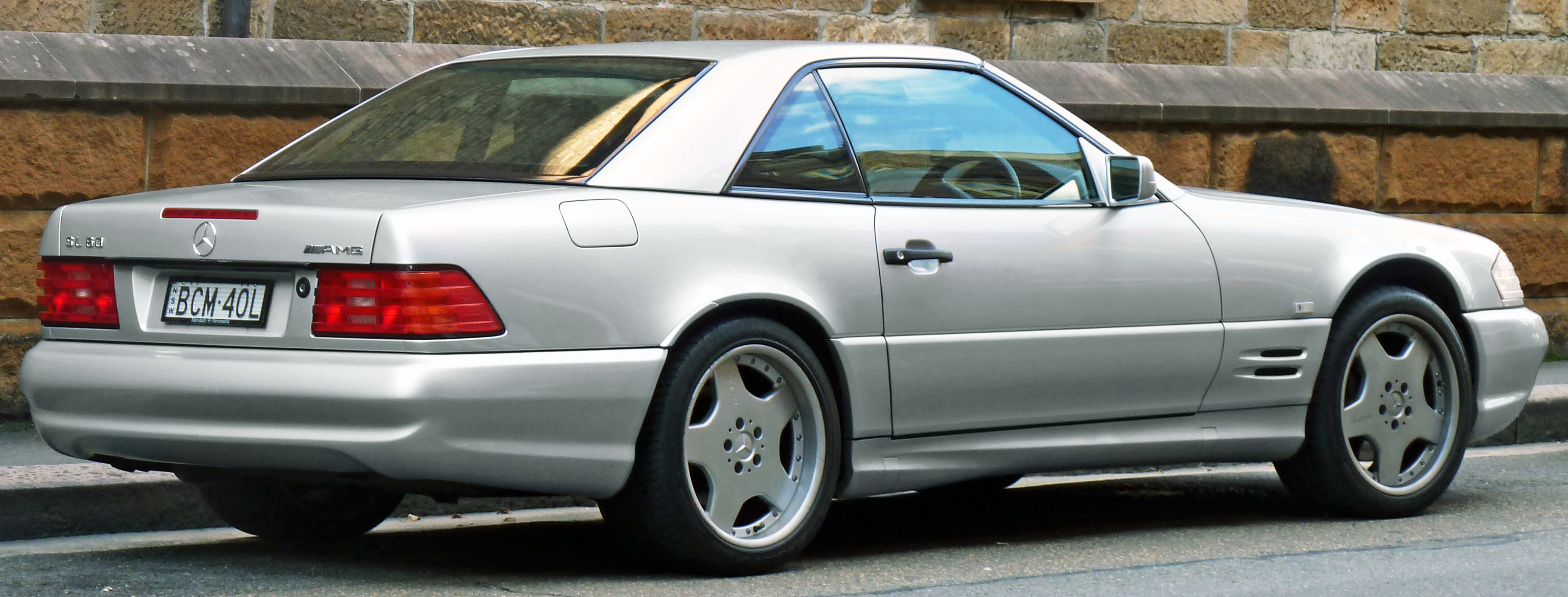 1997 Mercedes-Benz SL 60 AMG (R129) roadster. Photographed in The Rocks, New South Wales, Australia.